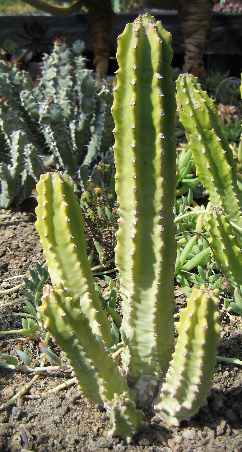 Euphorbia royleana, Wrocław University Botanical Garden, Wrocław, Poland.